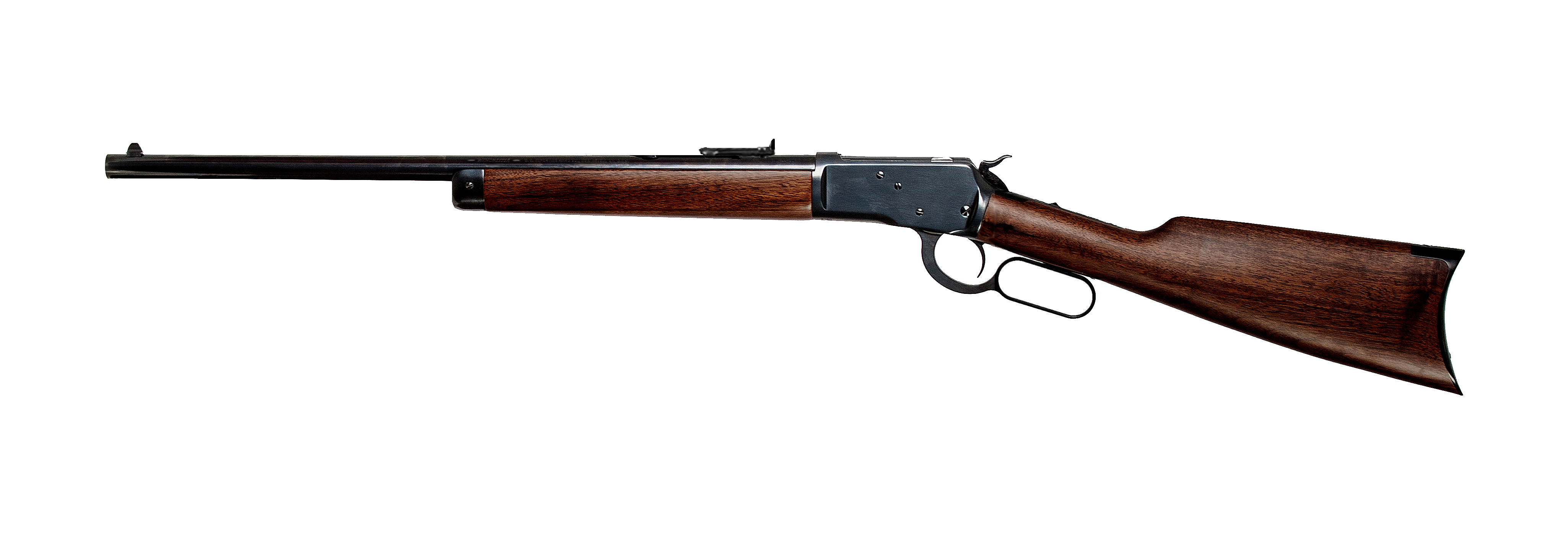 Winchester 92 short rifle